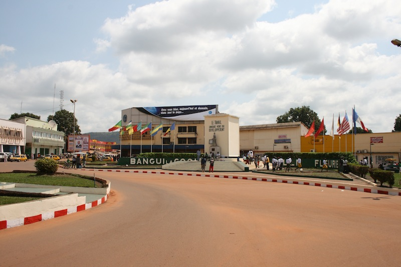 Local Shops in Bangui